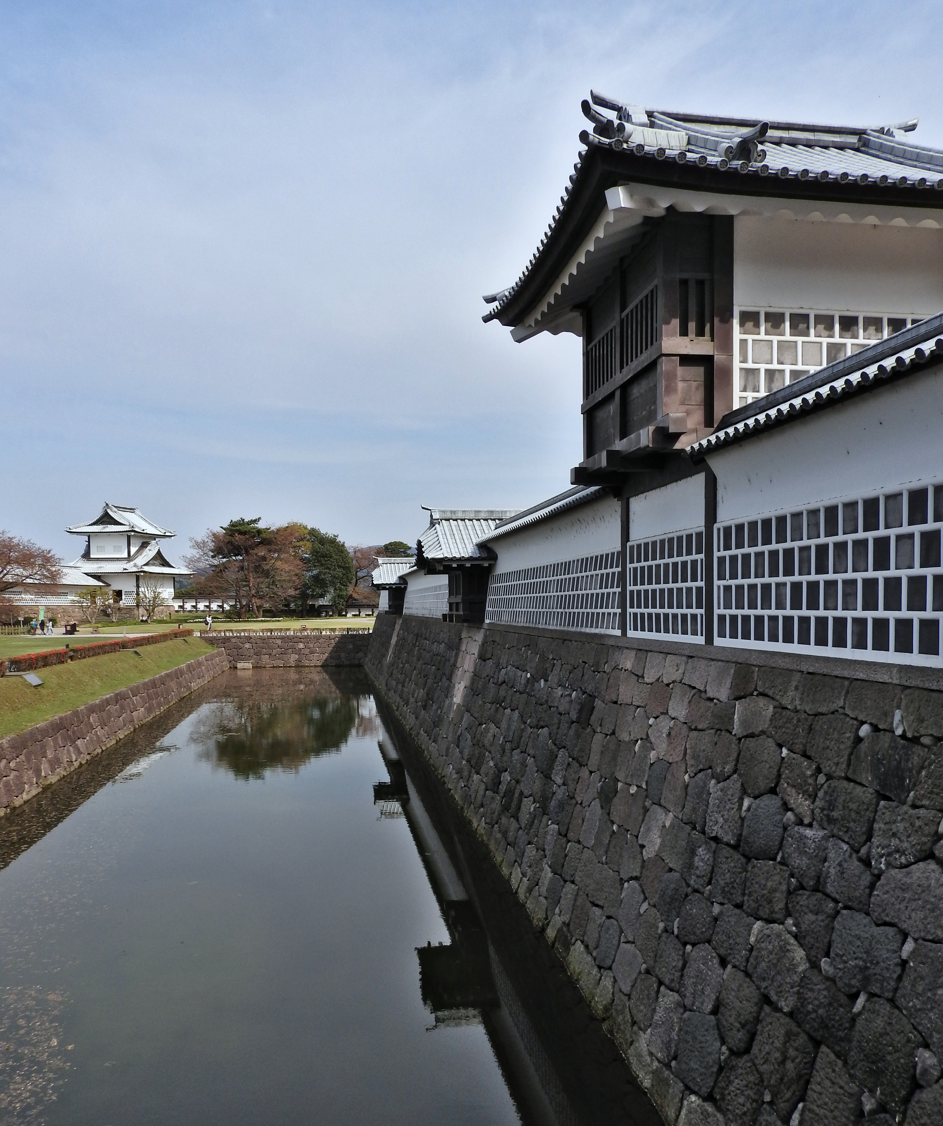 Kanazawa Castle